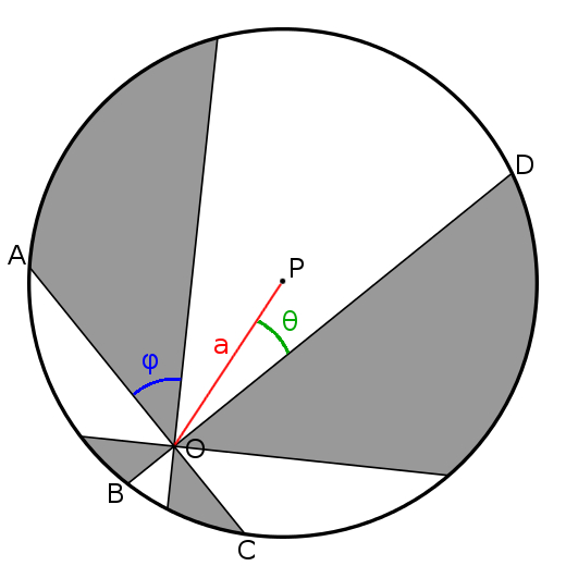 Demonstration scheme for pizza theorem.